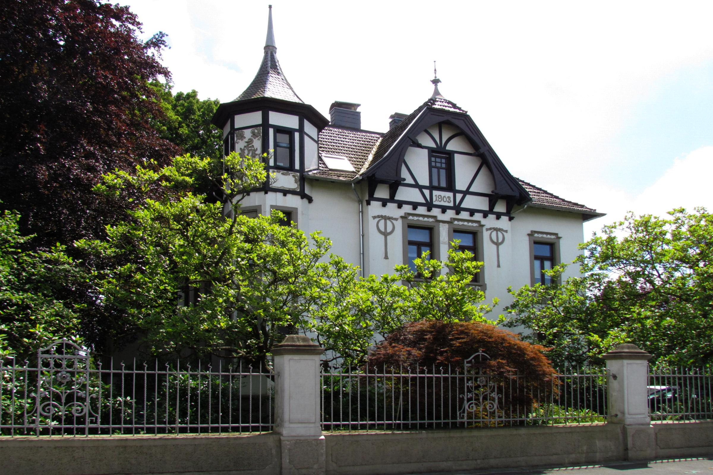 This is a photograph of an architectural monument.